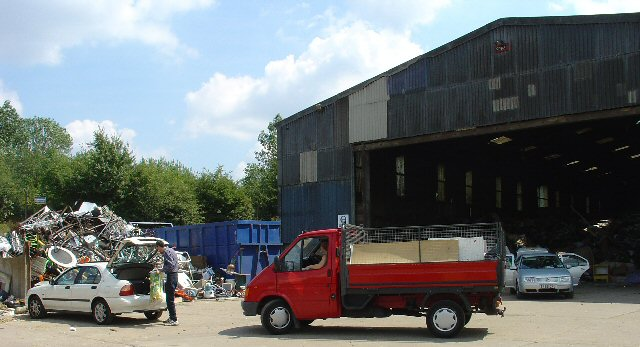 Burgess Hill household waste disposal site on the north edge of the town. The site operates a system where different types of refuse are separated. On the left, a pile of scrap metal can be seen. Out of shot are separate areas for paper items and garden rubbish (amongst other types). "General" waste (e.g. old furniture etc is deposited in the large shed for further sorting by the facilities staff.